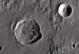 Horrocks lunar crater as seen from Earth with satellite craters labeled